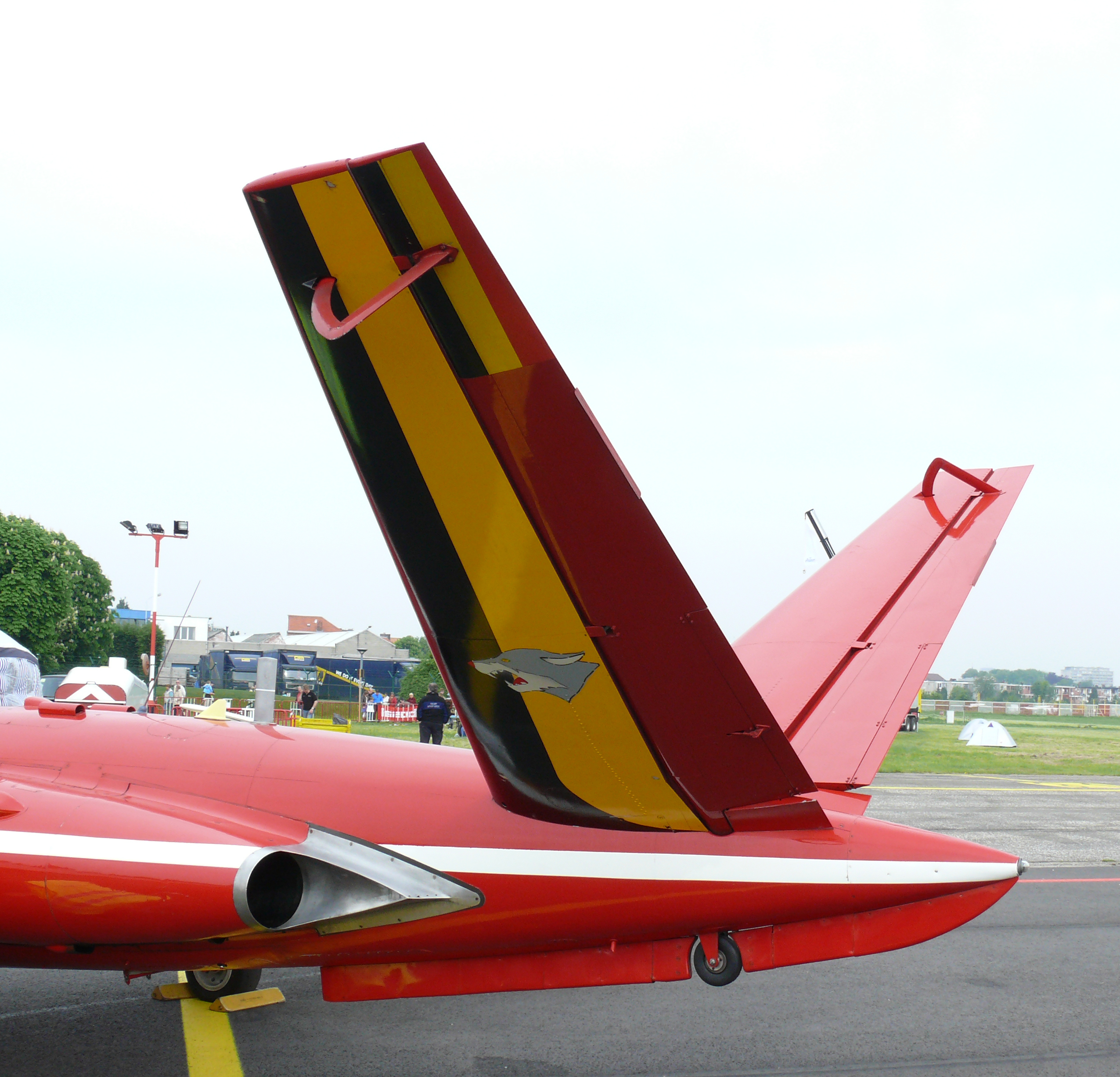 Fouga Magister MT-13 in Red Devils aerobatic team colour-scheme at the Stampe Fly In 2010.